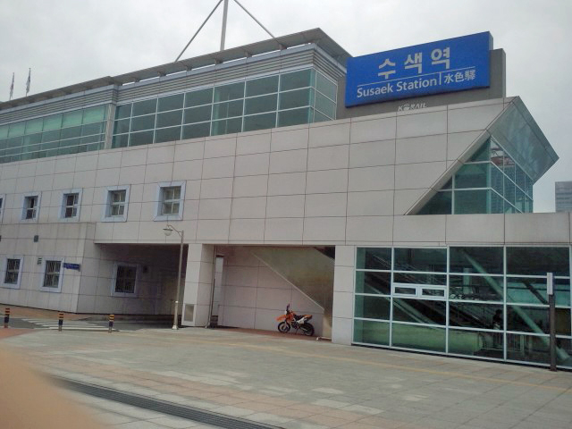 Susaek train stn